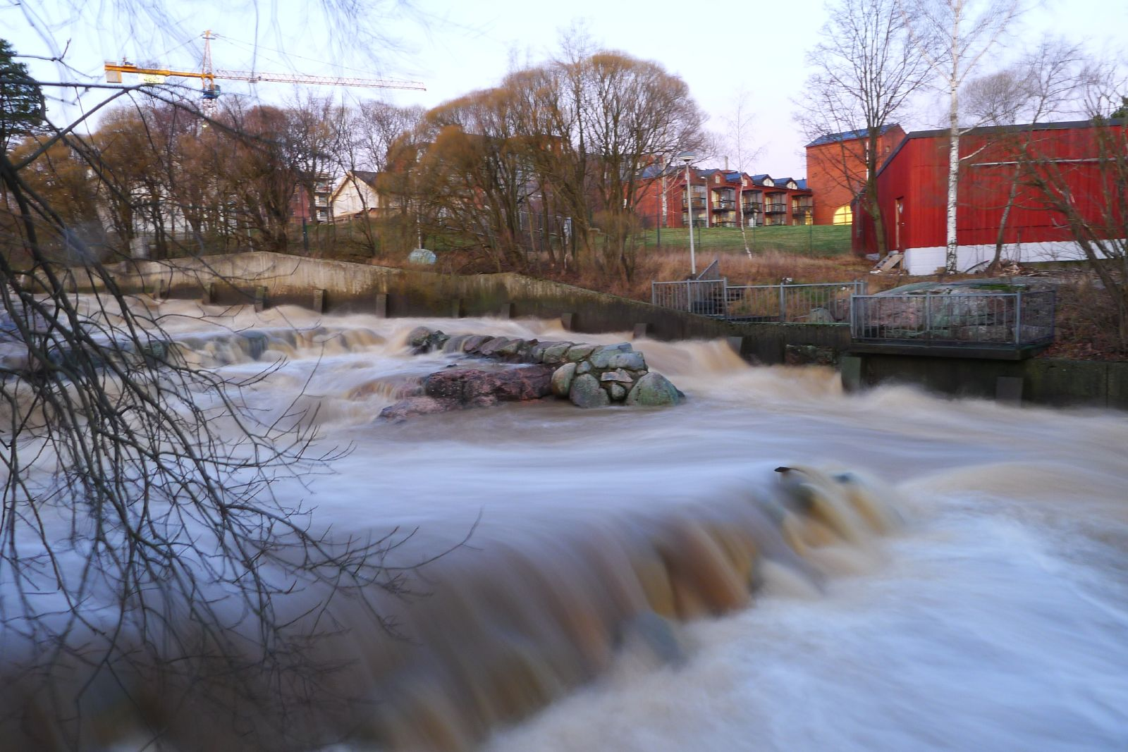 After a very wet December the Vantaanjoki in Vanhakaupunki, Helsinki, Finland is flowing fast